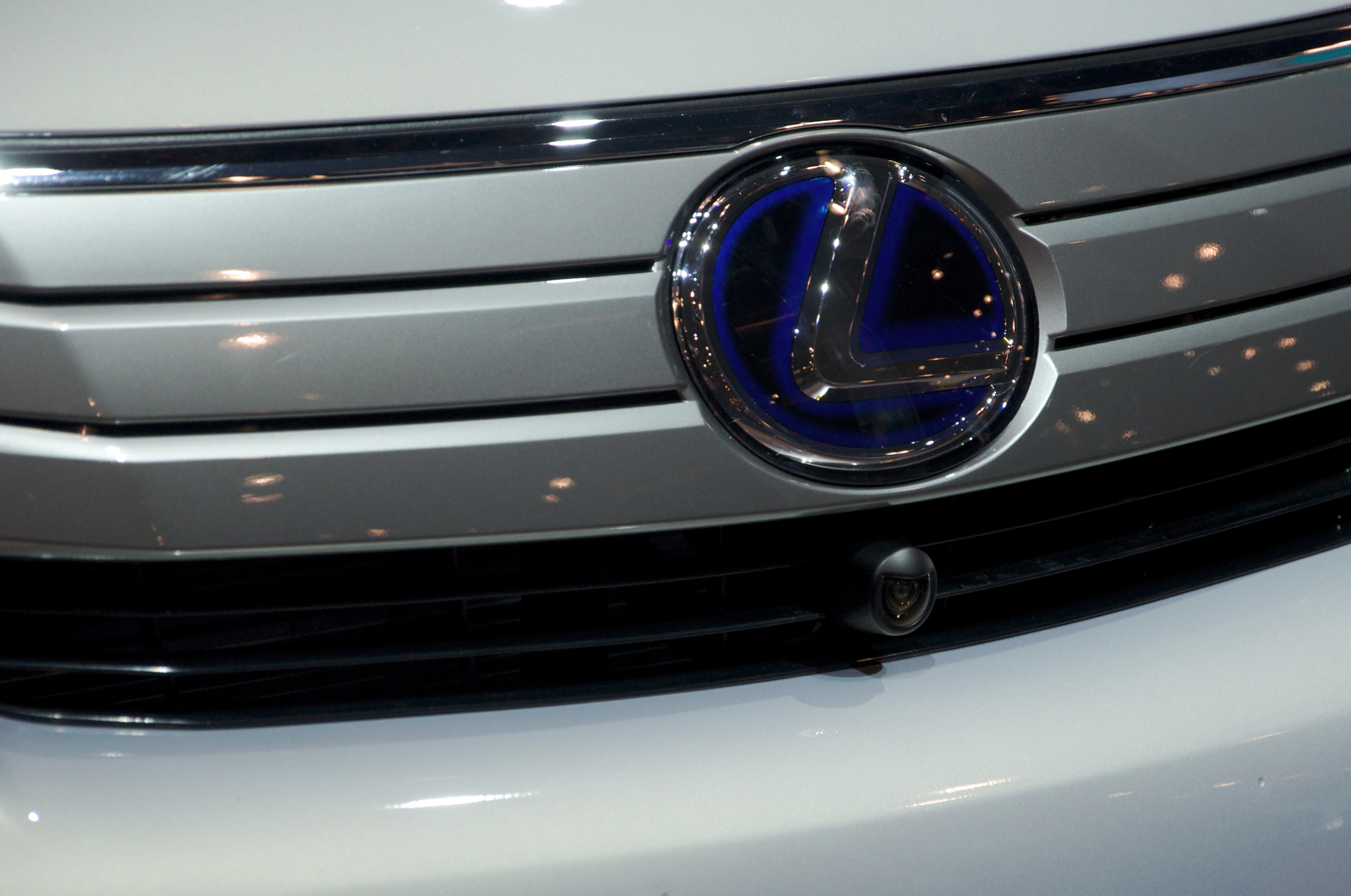 Lexus wide-view front monitor system